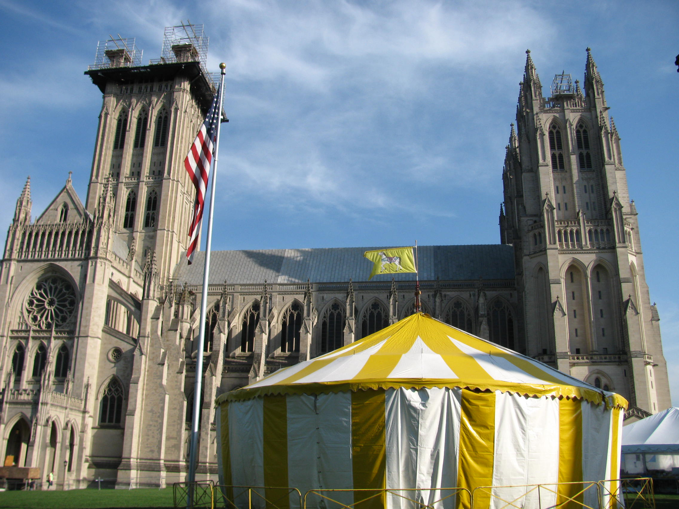 All Hallows Guild Carousel or simply the Traveling Carousel is a historic carousel housed at the National Cathedral in Washington, D.C. since 1963. Previously, it was a "county fair" carousel that moved with traveling carnivals throughout the United States. The rare all-wood carousel was likely built in the 1890s by the Merry-Go-Round Company of Cincinnati and has a rare caliola with brass pipes that was built by the Rudolph Wurlitzer Company of North Tonawanda, New York in 1937.